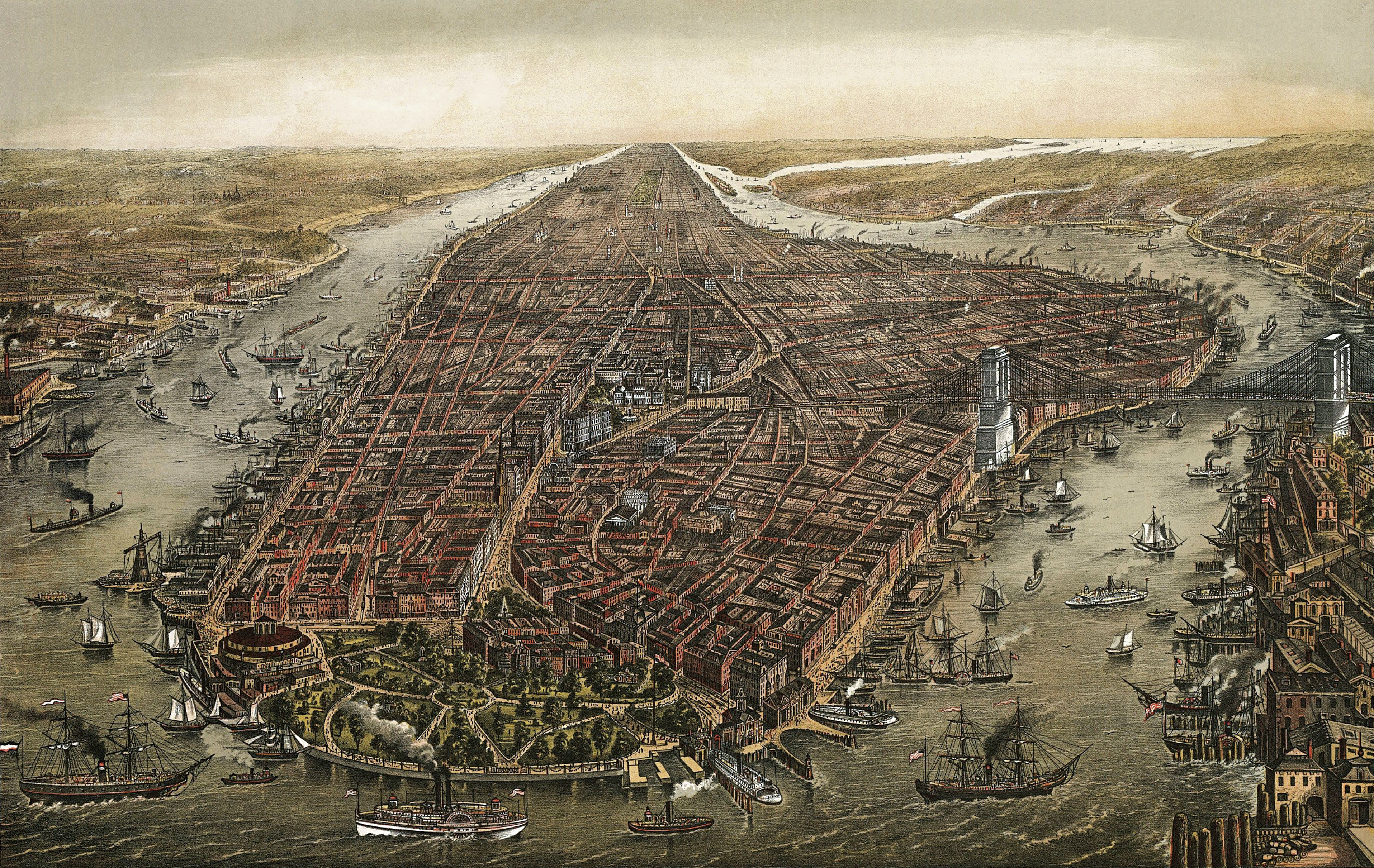 Bird's eye panorama of Manhattan & New York City in 1873